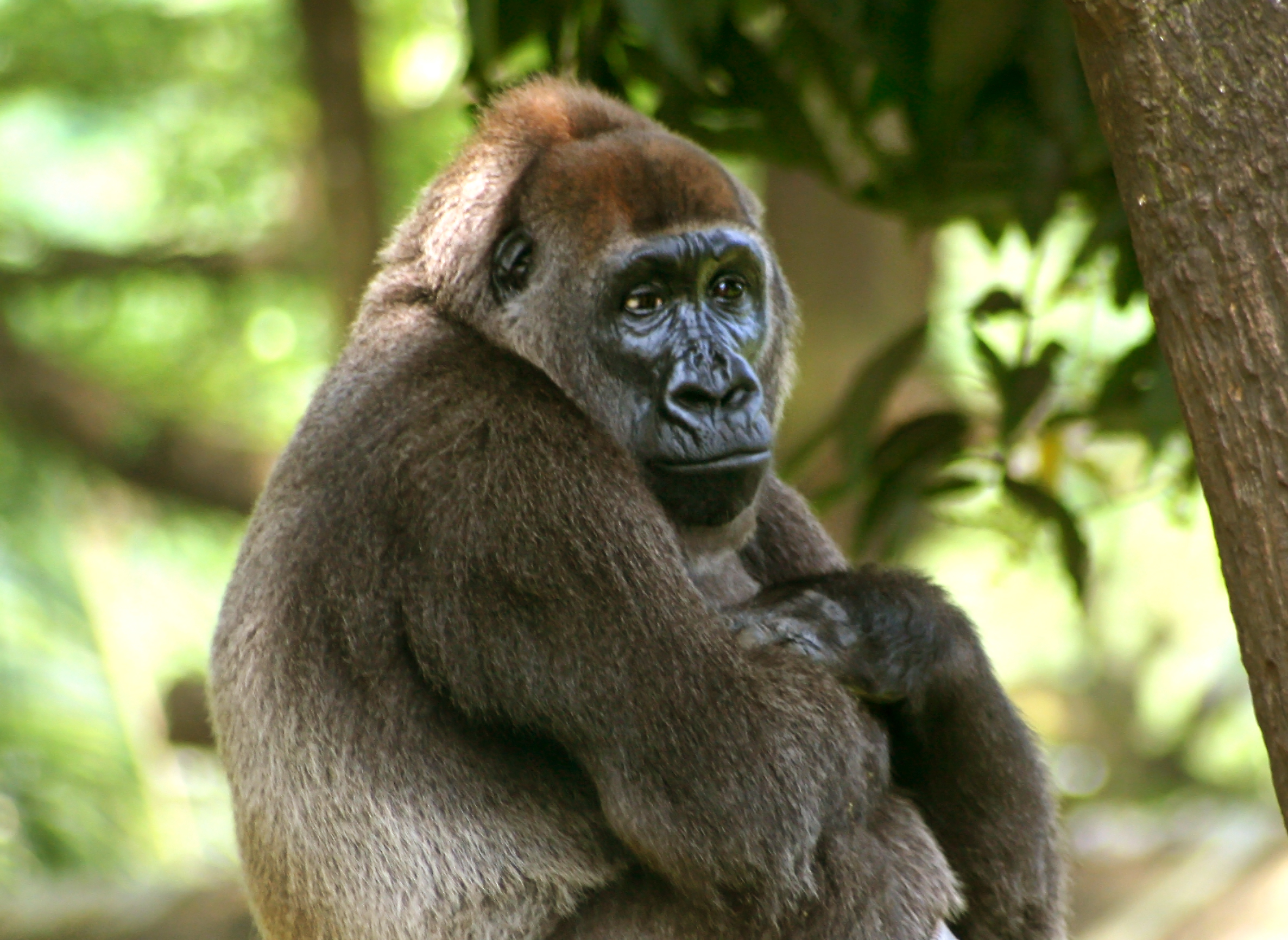 Cross River Gorilla (Gorilla gorilla diehli). Listed as one of the most endangered primates on the planet, with approximately only 300 left in the wild and just one in captivity. Wild Cross River gorillas are found only at the cross river border of Nigeria and Cameroon. This beautiful lady's name is Nyango, and she resides at Limbe Wildlife Centre, Limbe, Cameroon. Her right eye was damaged while young [probably during her capture by hunters]. I built a special relationship with this very unique lady during my visit to Limbe, but unfortunately, my camera was playing up for the whole visit, and sadly, this is the best shot I got of her. I hope to return one day, with a fully working camera, just to get another image of this fantastic creature. She is a rare gem indeed.